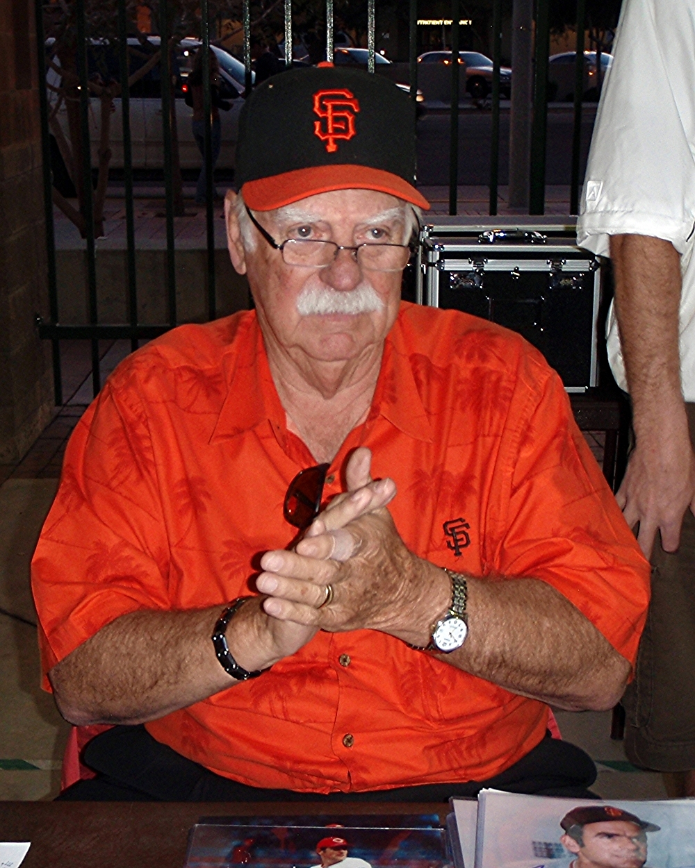 Gaylord Jackson Perry, born September 15, 1938 in Williamston, North Carolina, is a former Major League Baseball right-handed pitcher. He pitched from 1962-1983 for eight different teams in his career. During a 22-year baseball career, Perry compiled 314 wins, 3,534 strikeouts, and a 3.11 earned run average. He was elected to the Baseball Hall of Fame in 1991. He was the first pitcher to win the Cy Young Award in both leagues: 1972 with the Cleveland Indians (American League), and 1978 with the San Diego Padres (National League).